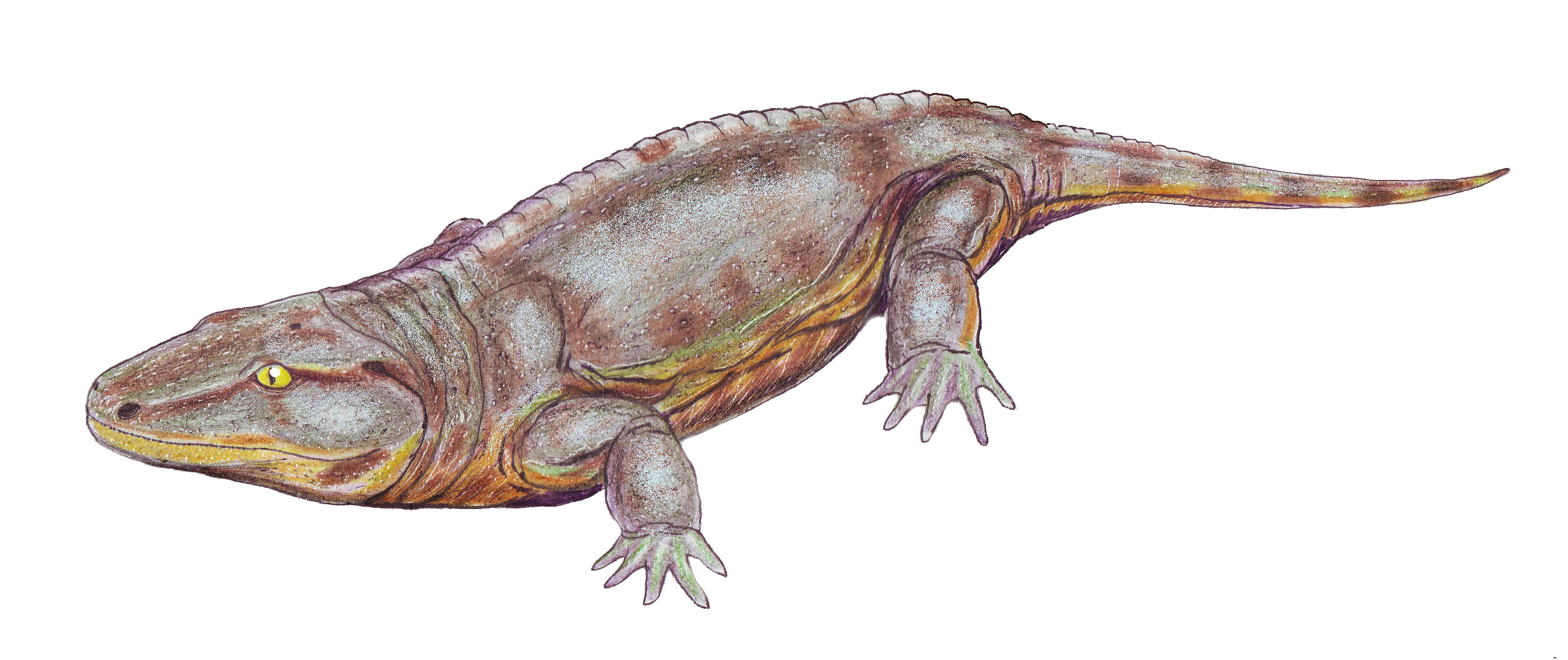 Seymouria baylorensis